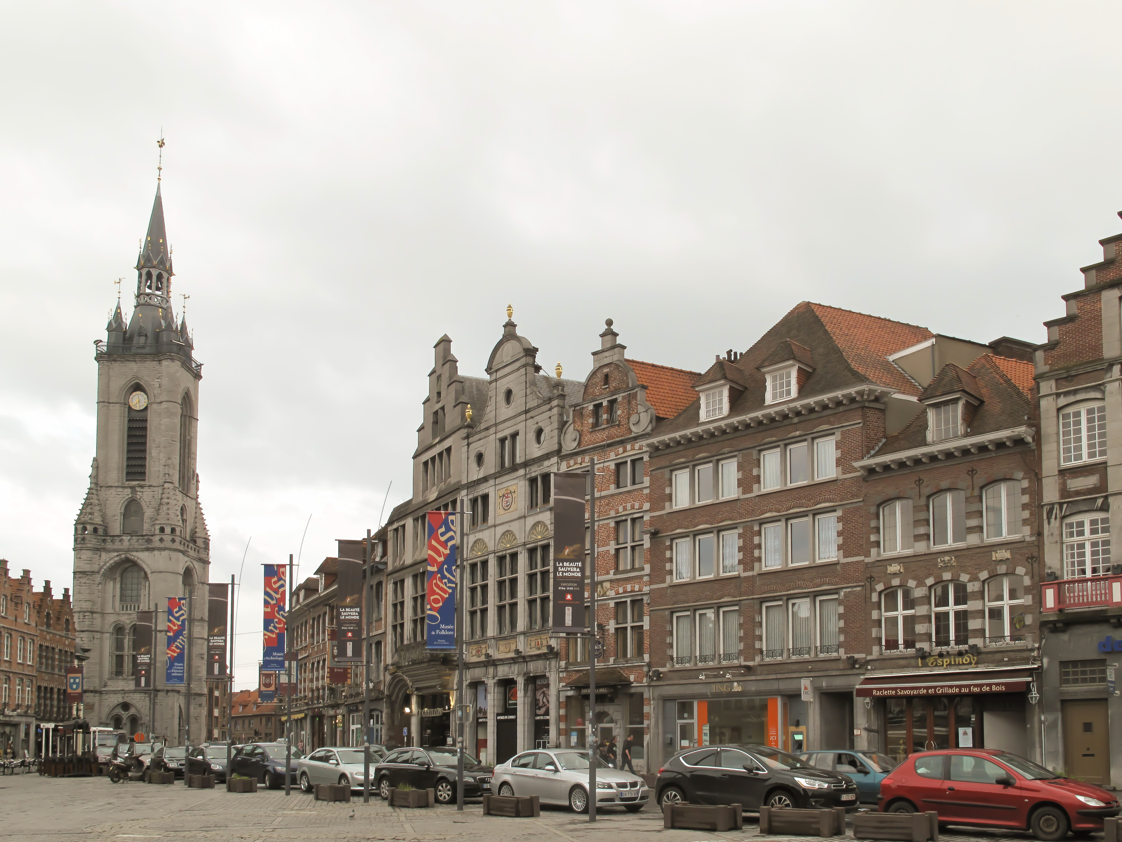 Tournai, view to a square: la Grand Place